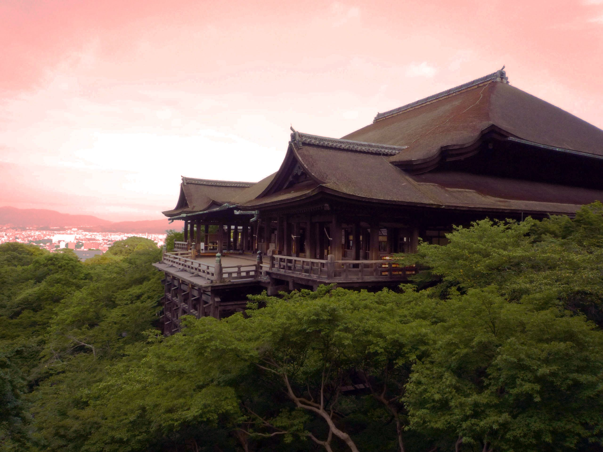 Kiyomizu-dera, Japan.